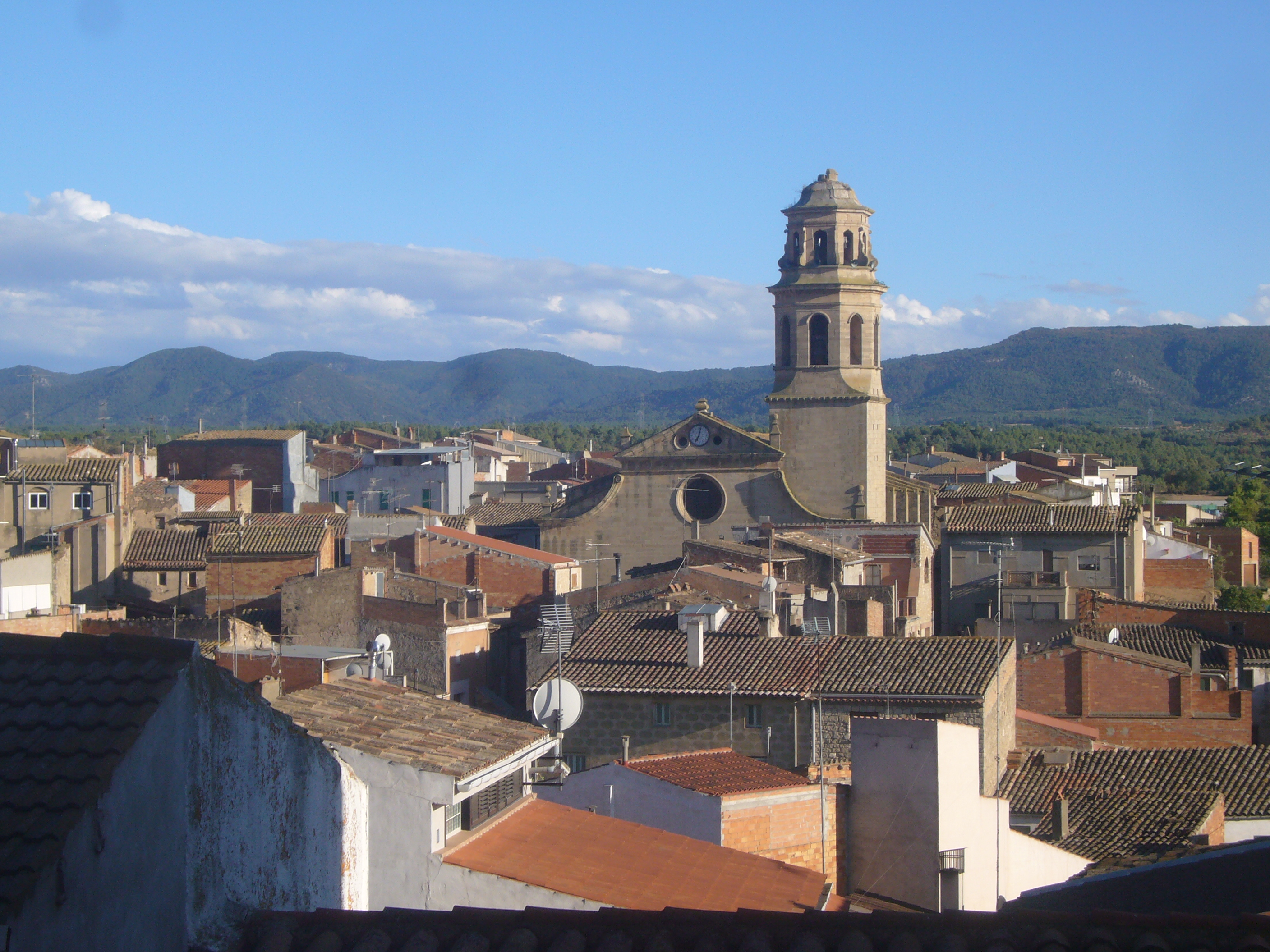 Village of L'Albi (Catalonia), seen from its castle